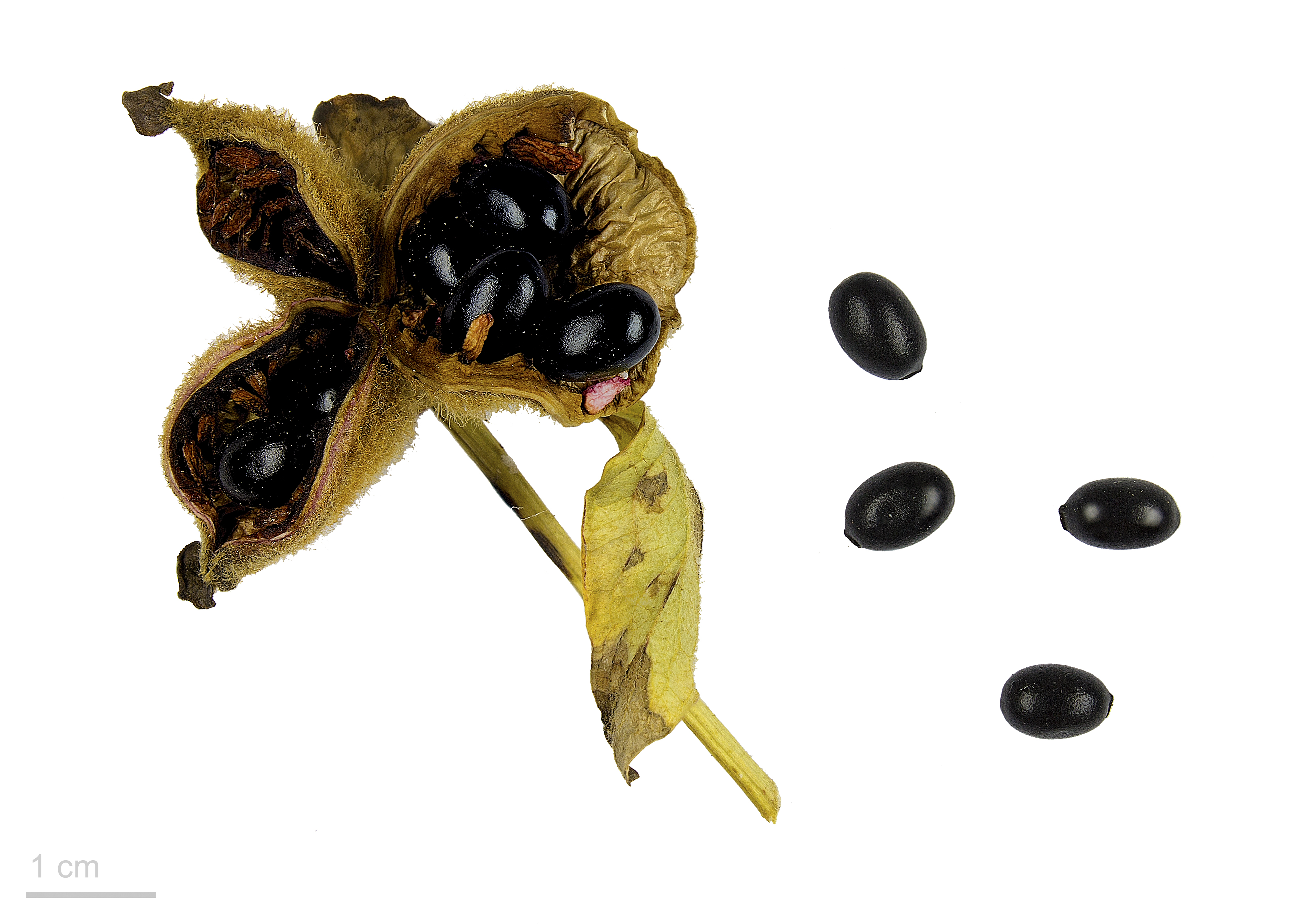 Paeonia officinalis, European peony, seeds